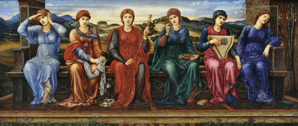 The Hours depicts the passing of time, with the same figure representing each stage from morning until evening. Morning is symbolised by this figure waking and brushing her hair whilst by the evening she is shown sleeping. Burne-Jones has used colour and light to create harmony throughout the work. It is a complicated and detailed design that took him twelve years to complete. He wrote ‘Every little lady … wears a lining of the colour of the hour before her and a sleeve of the hour coming after.’ Burne-Jones was greatly influenced by the Pre-Raphaelite brotherhood, whose interests lay in depicting medieval and mythical subject matter.